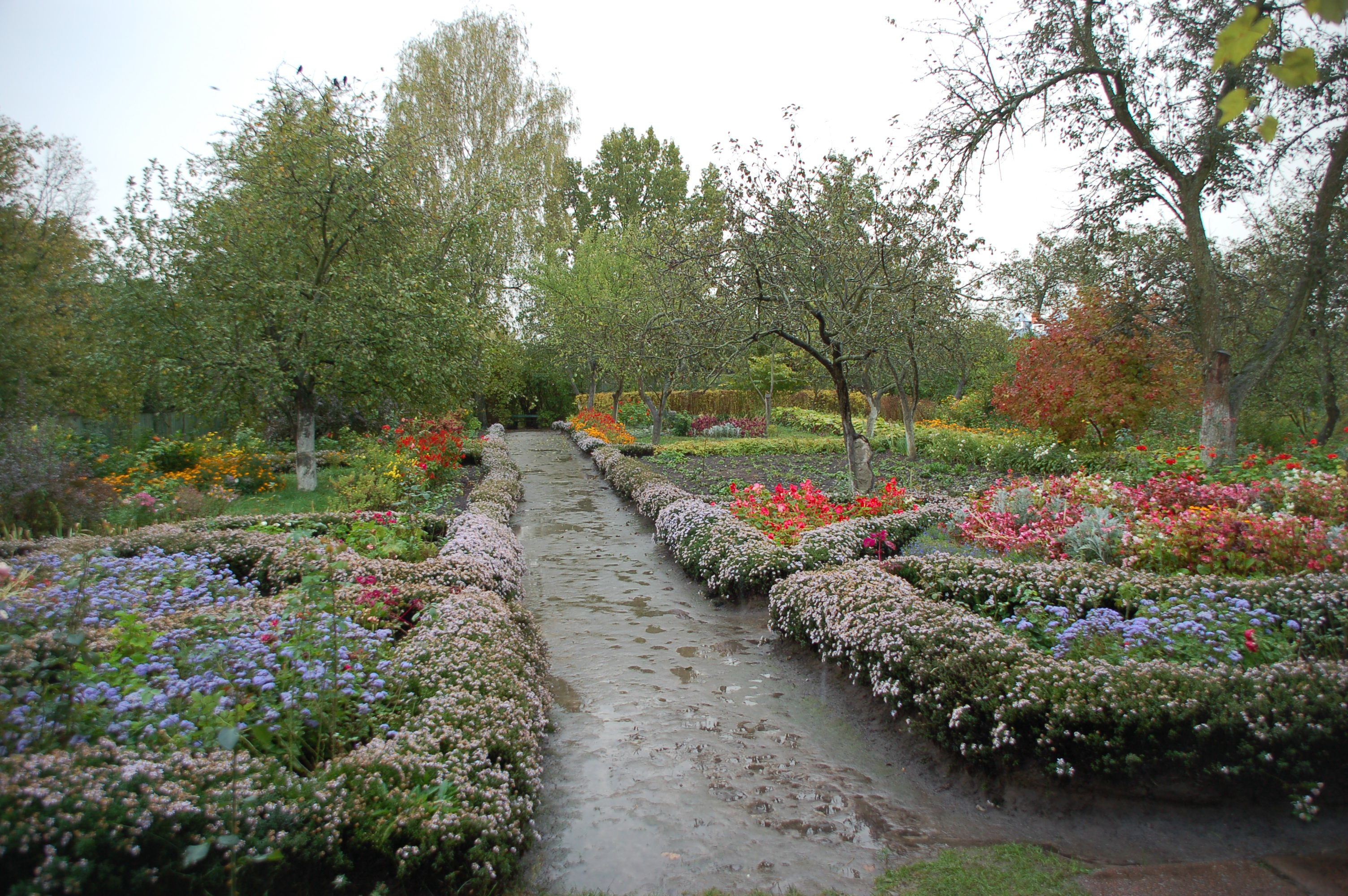 The gardens of the Mykhailo Kotsyubinksy museum in Chernihivin a rainy day